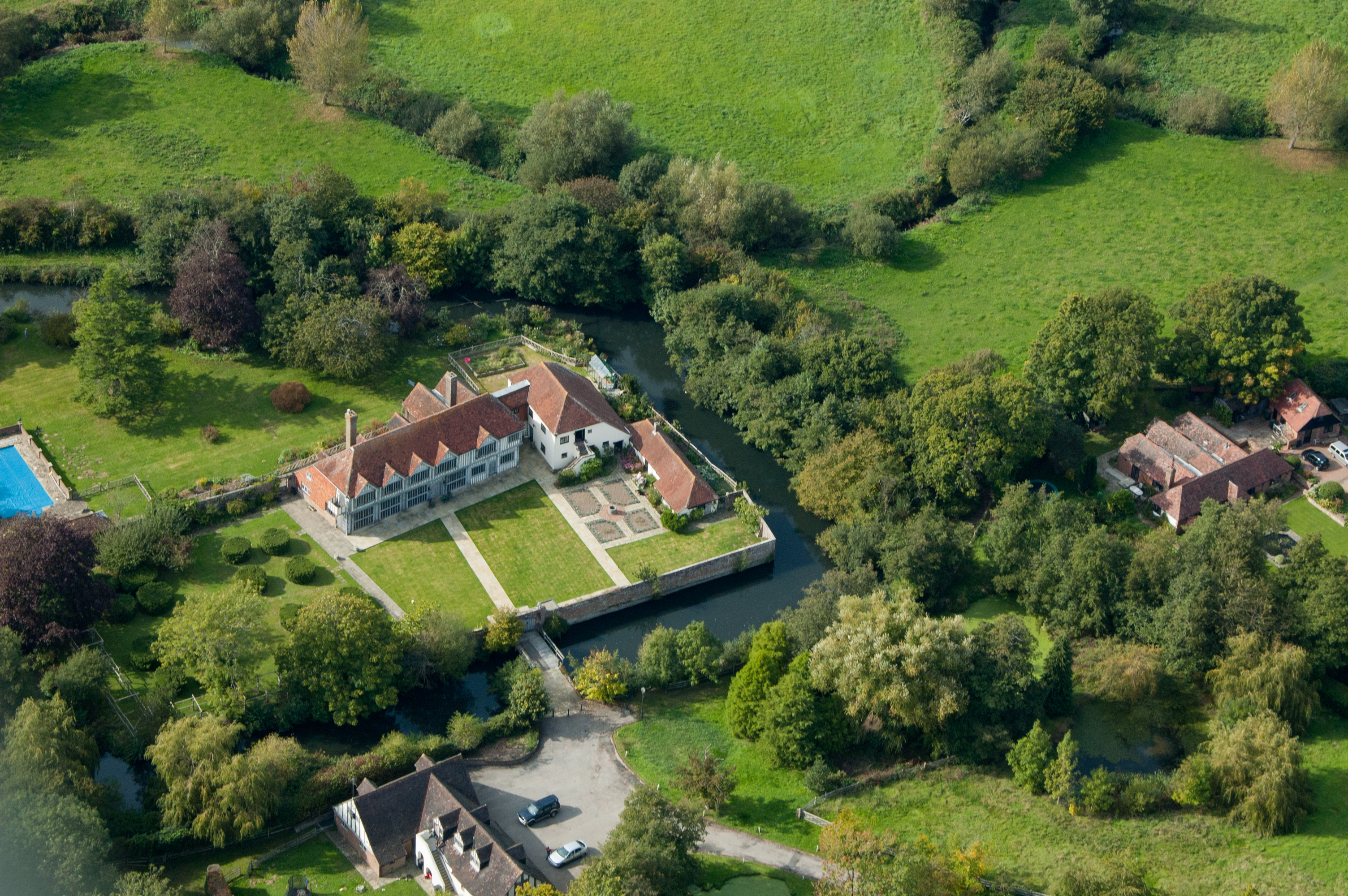 Aerial view of Horselunges Manor, Hellingly, East Sussex